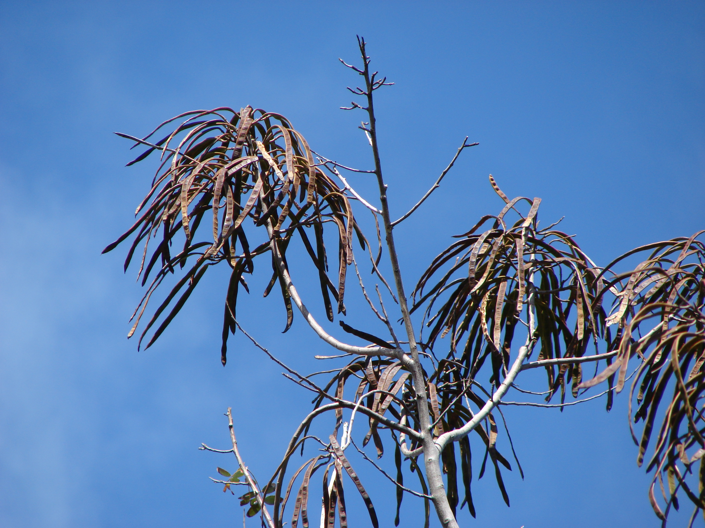 Senna siamea (seedpods). Location: Maui, Huelo